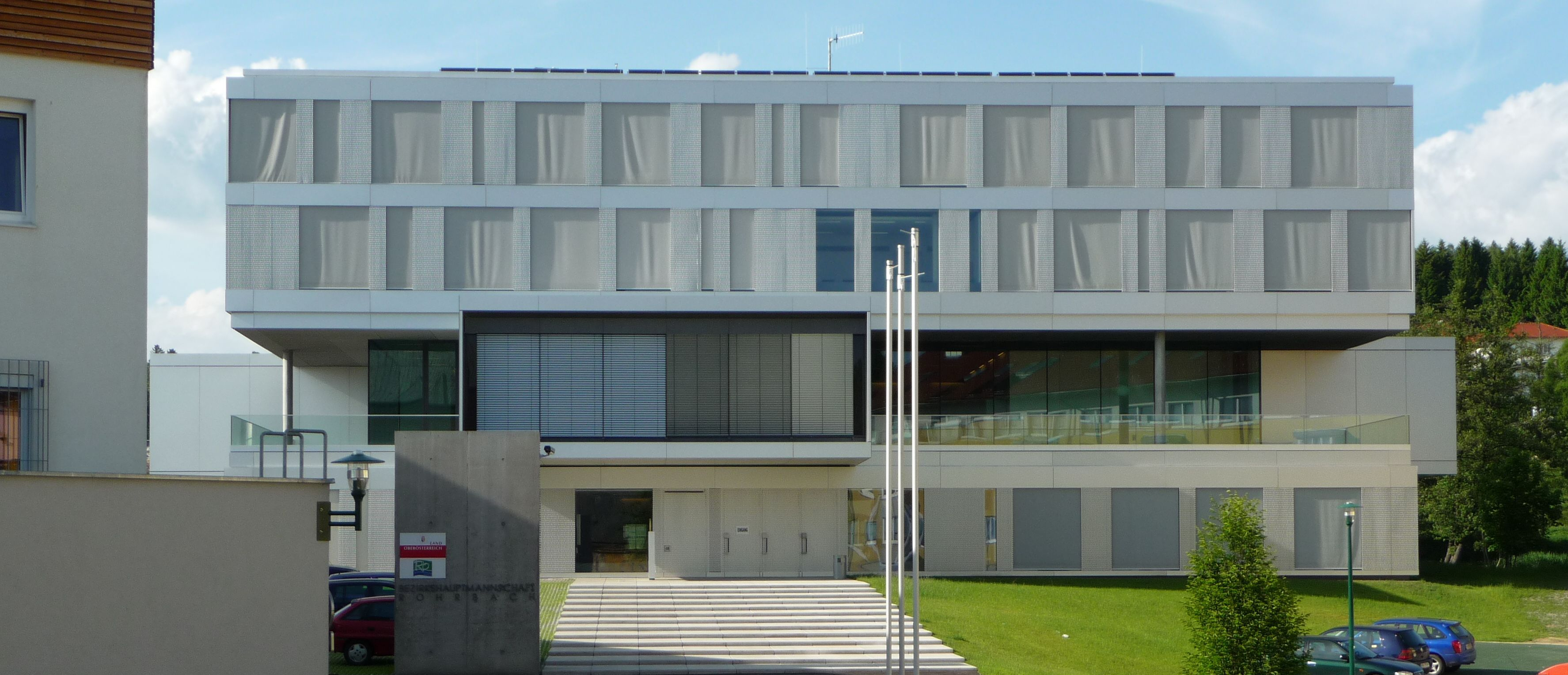 district administration in Rohrbach Upper Austria